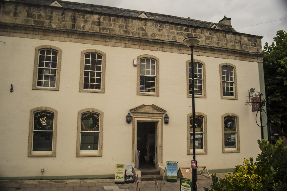 Listed II building in Frome, Somerset, circa 1700, named 'Iron Gates', King Street, Frome. Historic England record